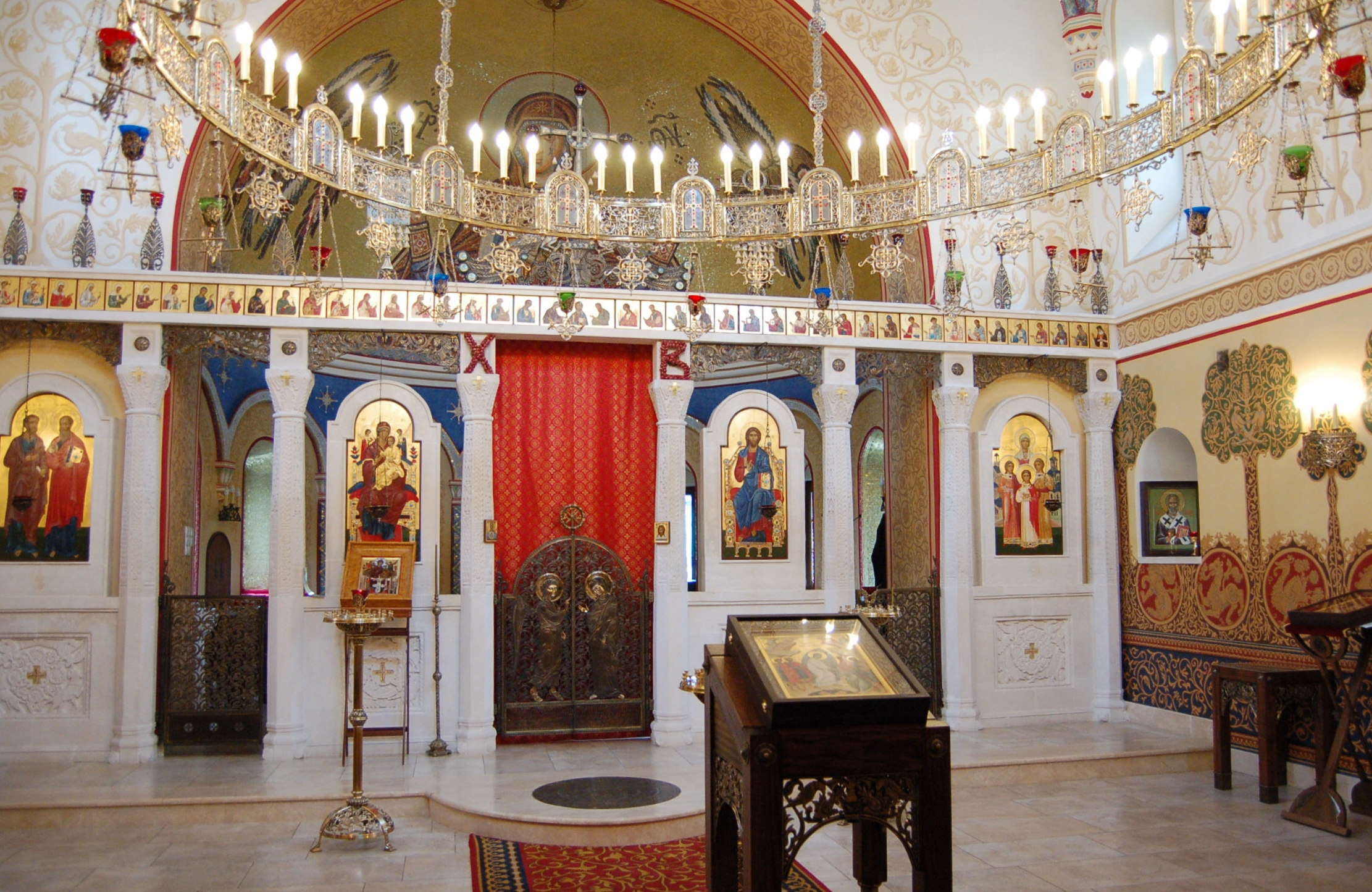 Moscow Churches, photographed September 2015 Children's Hospital Chapel